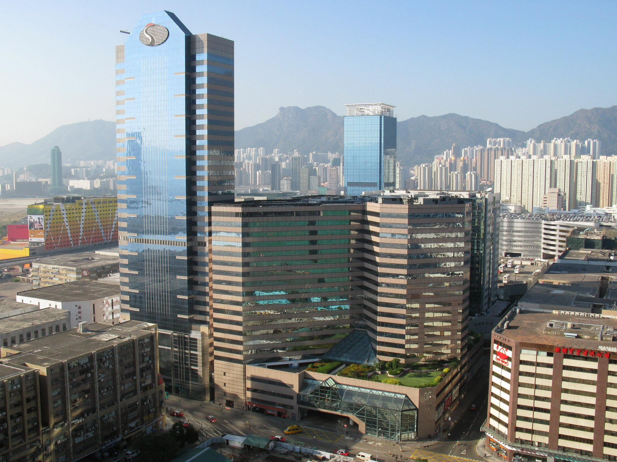 企業廣場一期（右）及二期 Enterprise Square One (right) & Two